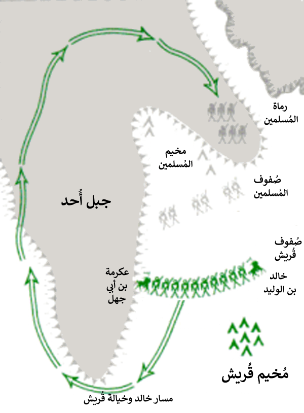 A drawing for the Battle of Uhud showing the two armies and the maneuvering of Khalid ibn Al-walid with the cavalry around the forces of Muslims.